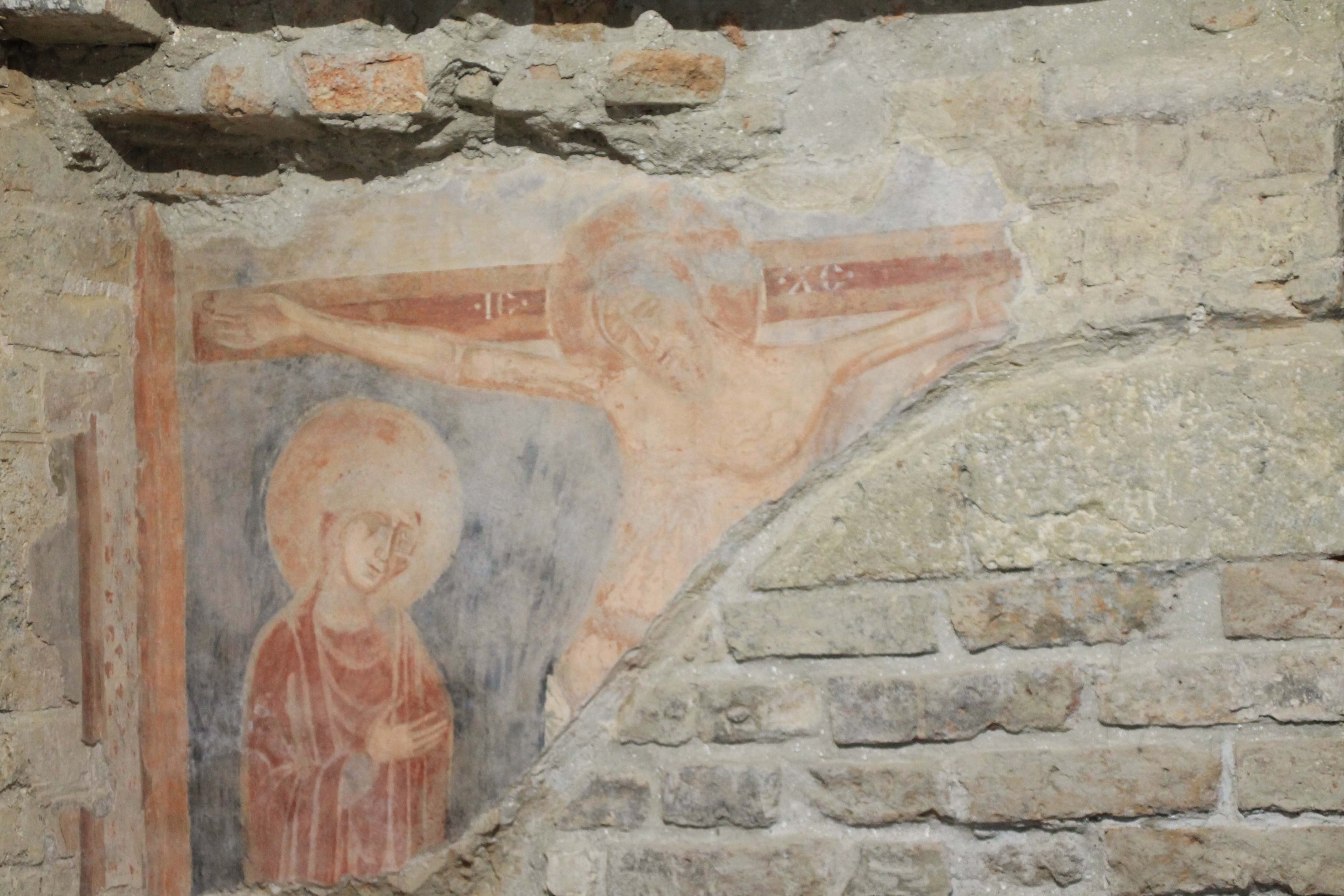 Franciscan churches in Bač